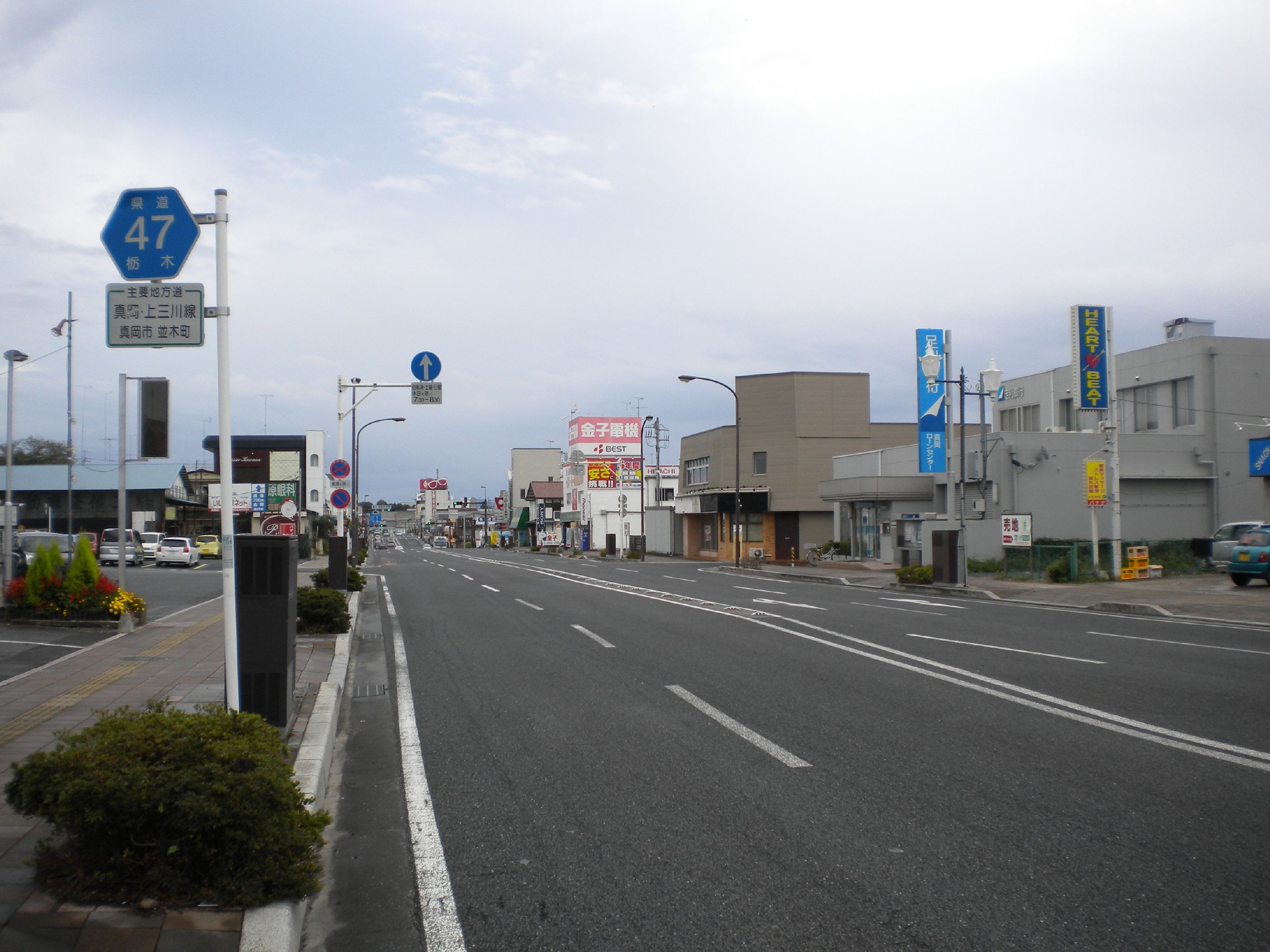 The Tochigi Prefectural Road Route 47 in Namikicho 3-chome, Moka City